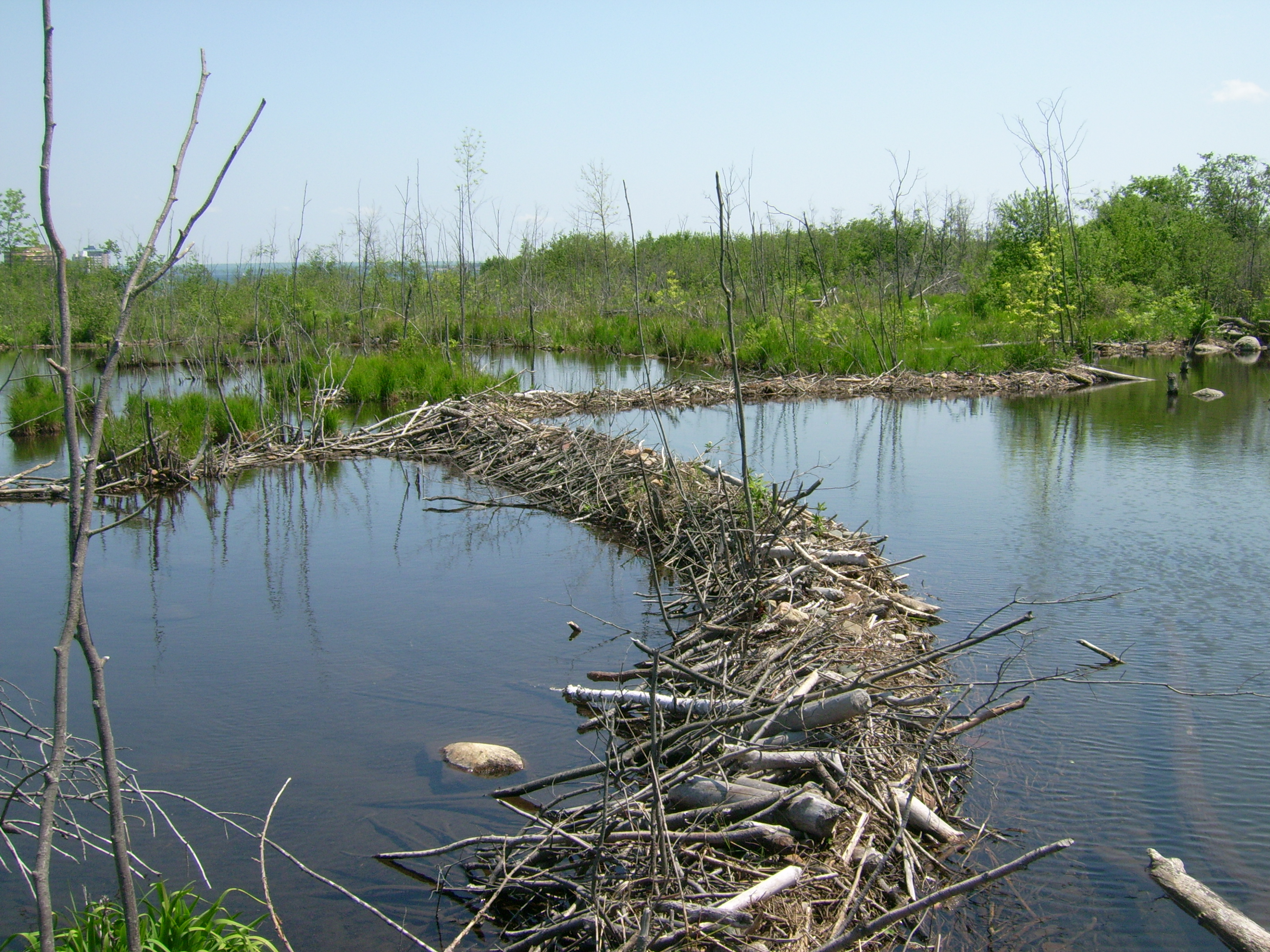 Beaver dams, Whitefish Channel, St. Marys River, Sault Ste. Marie, Canada.